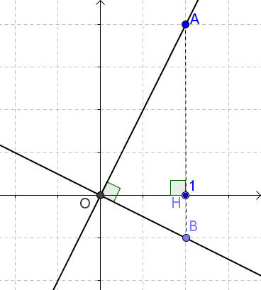 perpendicular lines